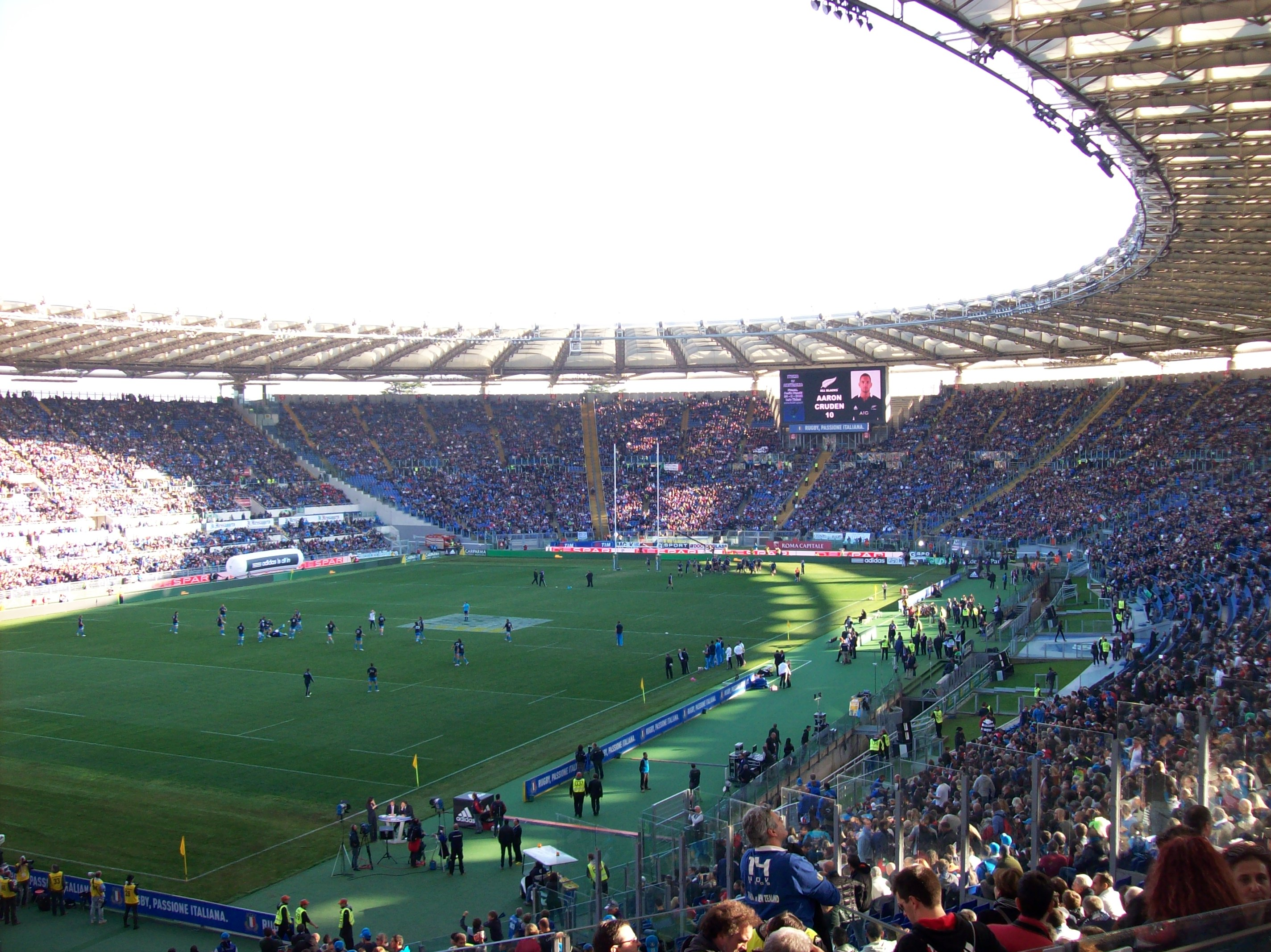 the All Blacks and the players of Italy national rugby union team warm up before the test match at the Olympic Stadium in Rome